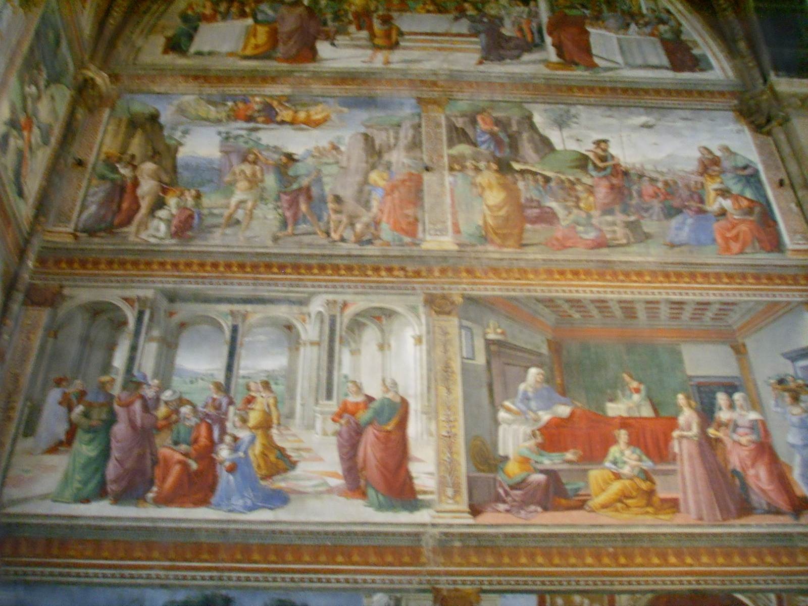 Santa Maria Novella church in Florence (Italy), Tornabuoni Chapel, frescos by Domenico Ghirlandaio.